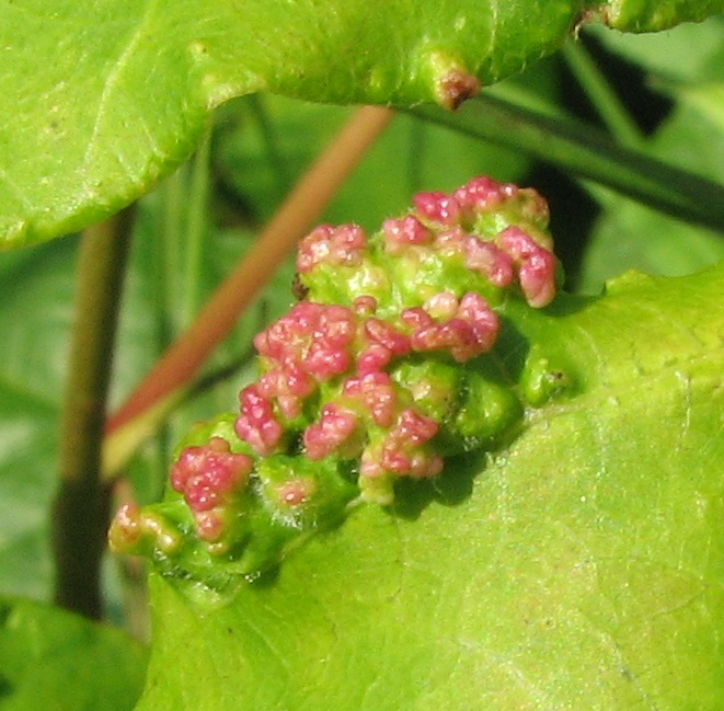 Poison ivy galls, Aculops rhois (Poison Ivy Leaf Gall Mite). Horsham Trail, Montgomery County, Pennsylvania, USA.